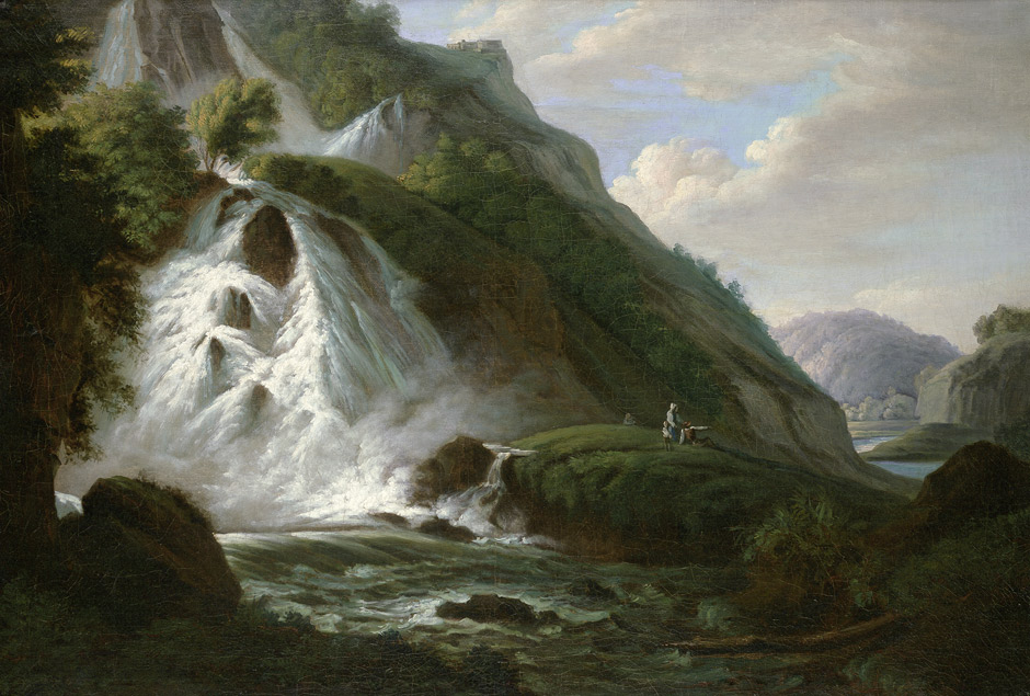 Jacob Wilhelm Mechau: Der unterste Reichenbachfall bei Rosenlaui-Meiringen im Kanton Bern. Öl auf Leinwand. 67 x 99 cm Jacob Wilhelm Mechau (1745–1808) Description German painter Date of birth/death16 January 174514 March 1808Location of birth/deathLeipzigDresdenWork locationRom, DresdenAuthority control VIAF: 819056 LCCN: no2007081961 GND: 119317761 ULAN: 500021993 ISNI: 0000 0000 6630 7452 WorldCat